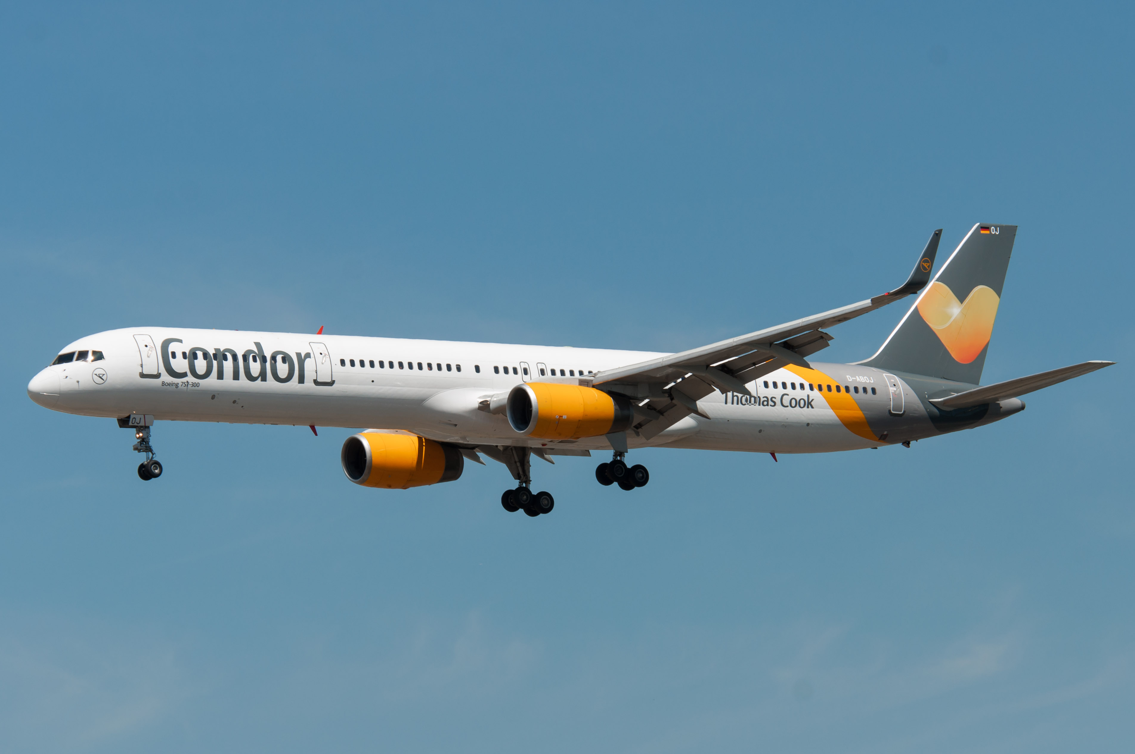 Frankfurt, July 2015